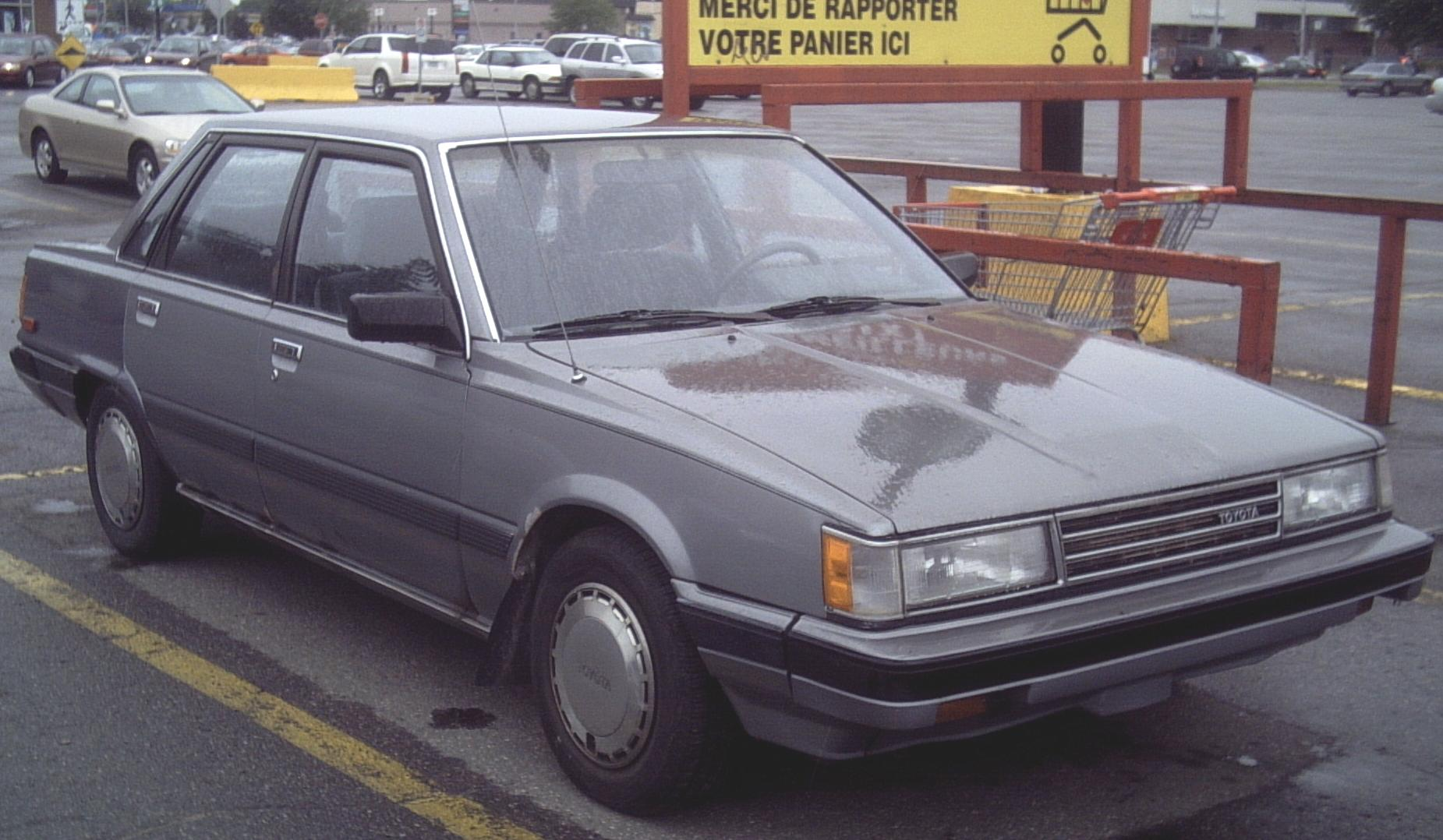 1985-1986 Toyota Camry photographed in Montreal, Quebec, Canada.